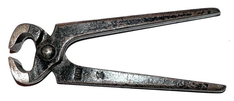 plier